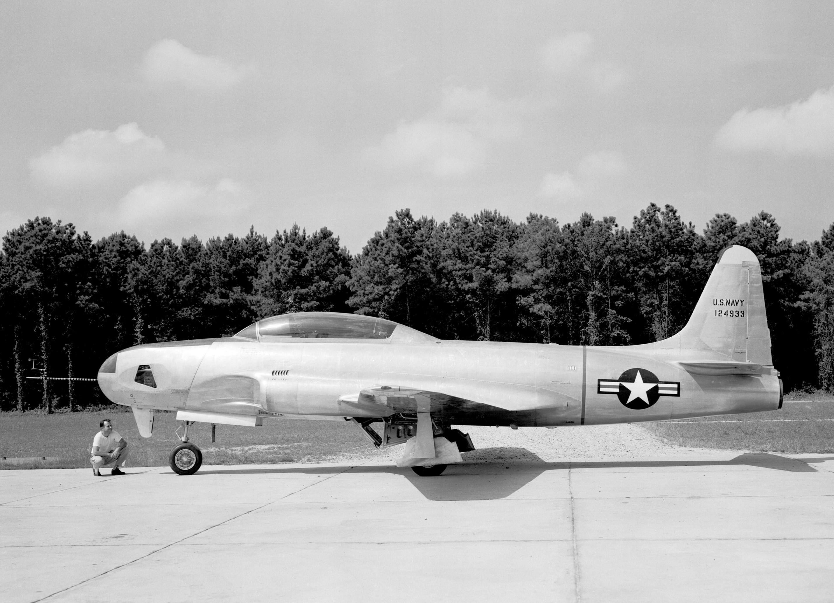 A U.S. Navy Lockheed TV-2 (BuNo 124933) at the National Advisory Committee for Aeronautics, Langley, Virginia (USA), 17 July 1951. The TV-2 was redesignated T-33B in 1962.